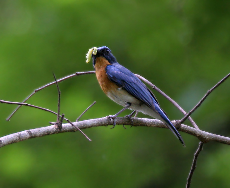 Tickell's Blue Flycatcher Cyornis tickelliae - Guj: Adharanga, Mar: Nilima, Ta: Kopi kuruvi, Neelakkuruvi, Kan: Neeli rajapakshi, Sinh: Kopi-kurulla, Marawa - at Ananthagiri Hills, in Rangareddy district of Andhra Pradesh, India.